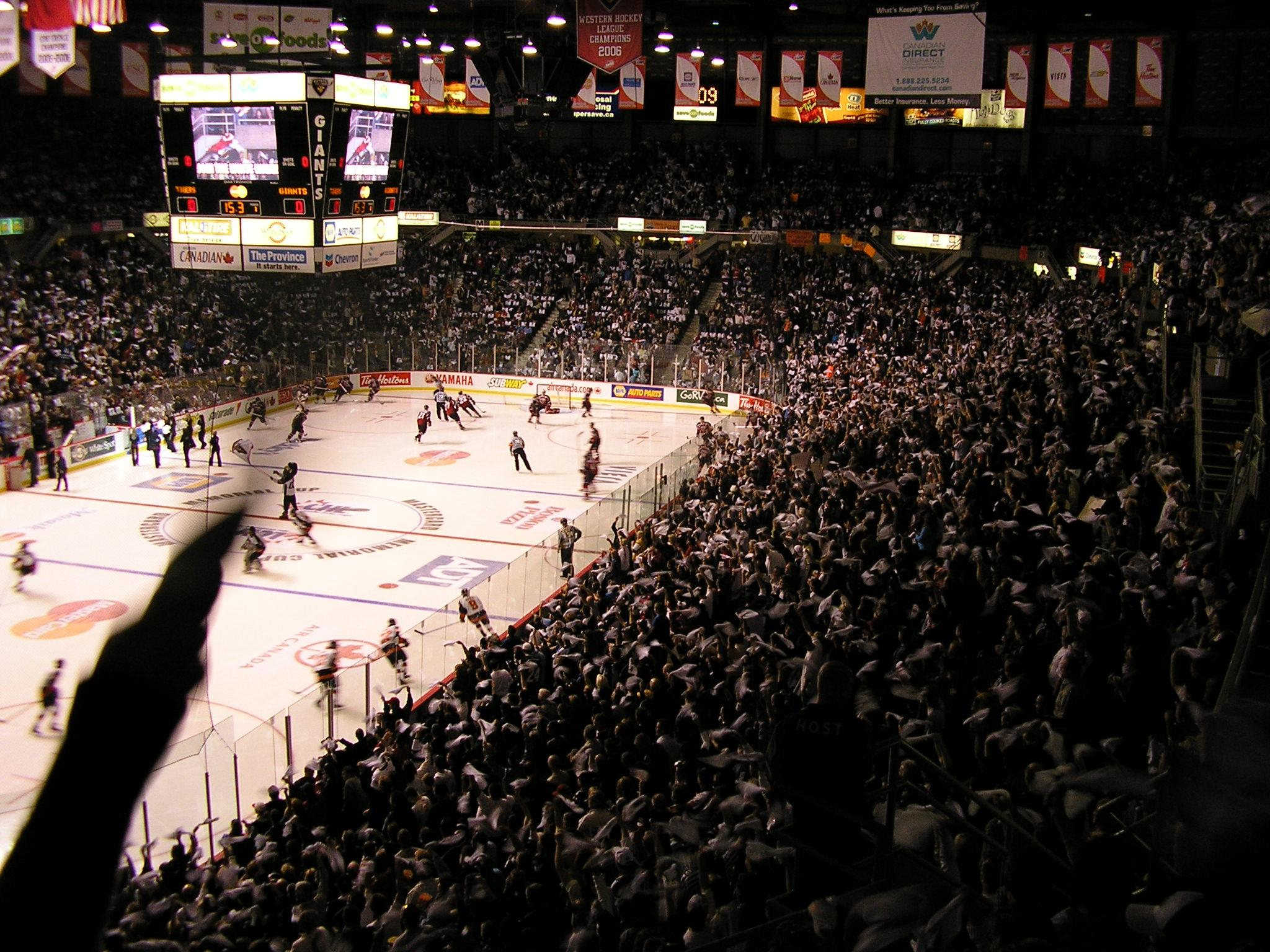 Fans cheering at the Pacific Coliseum in Vancouver, British Columbia prior to the 2007 Memorial Cup championship game. May 27, 2007